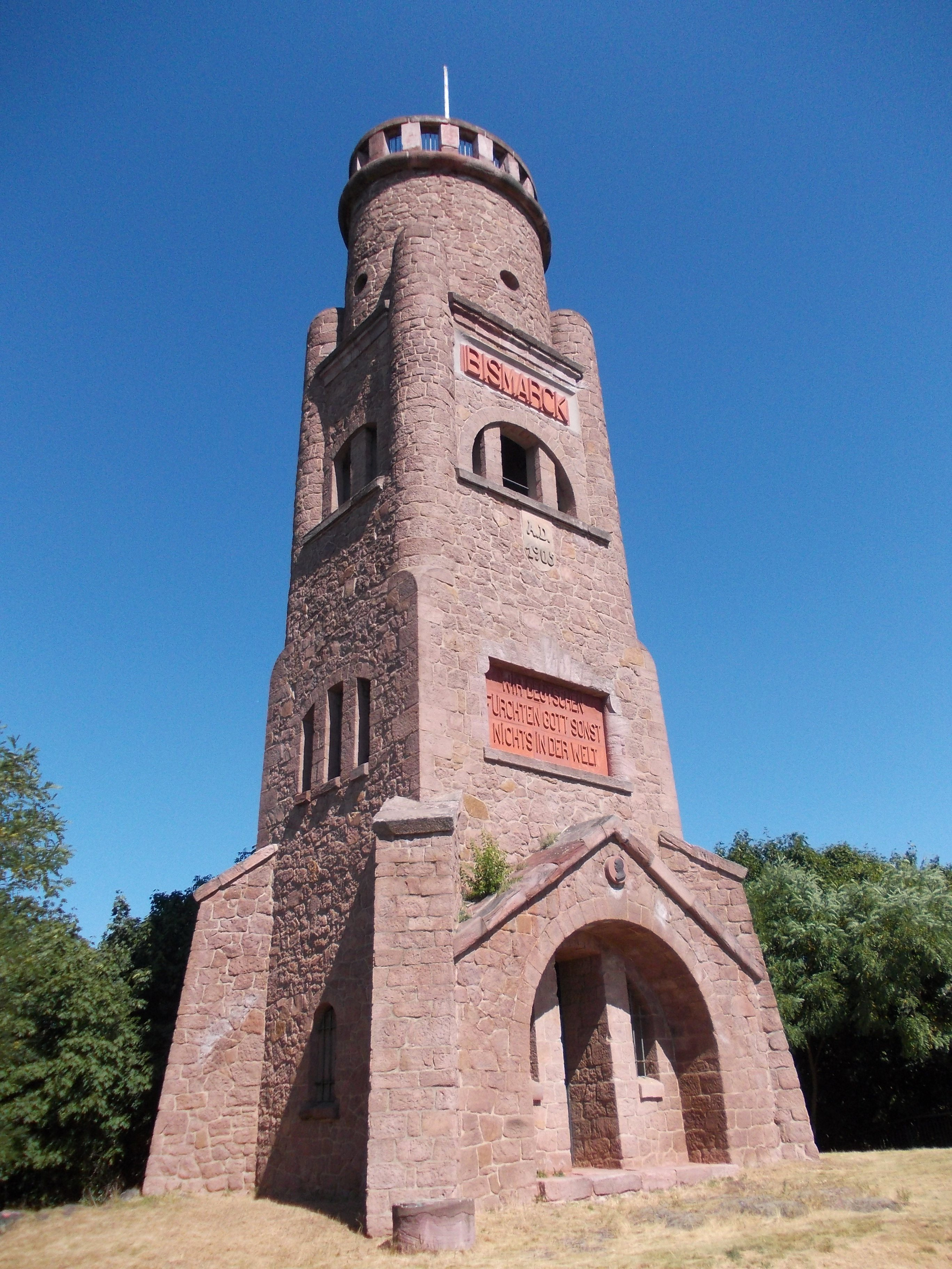 Bismarck tower at Grosser Schweizerling hill in Wettin (Wettin-Löbejün, district: Saalekreis, Saxony-Anhalt)